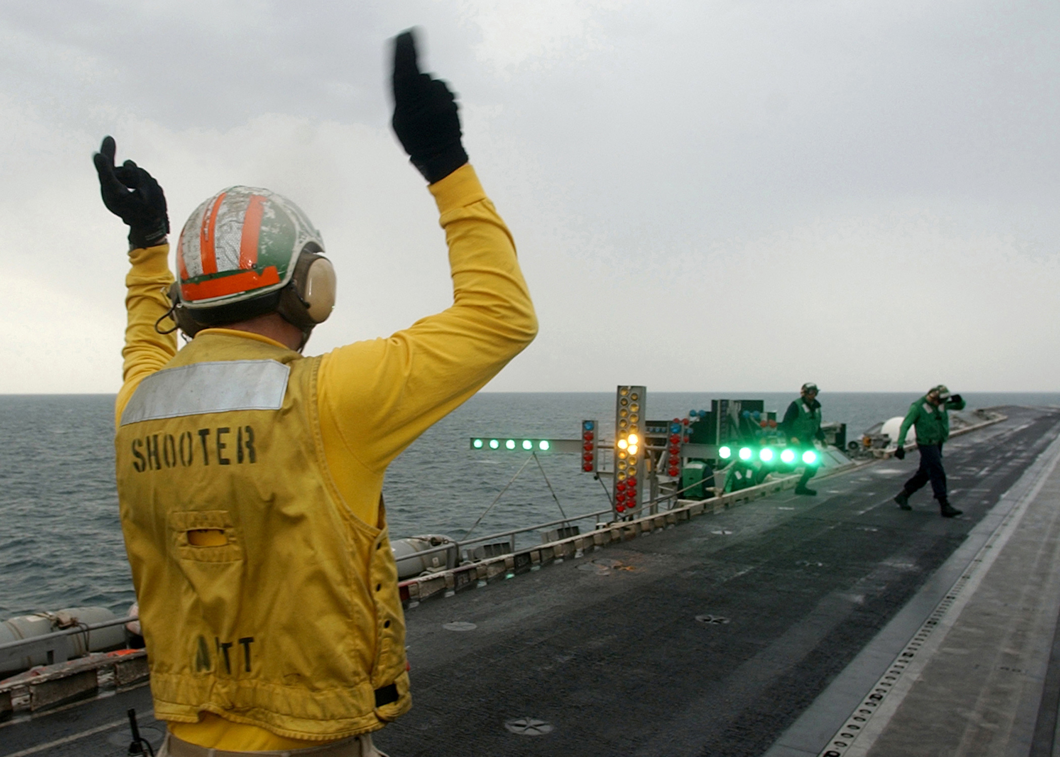 Persian Gulf (Jan. 18, 2005) – Lt. James Keating signals crew members during a testing of the Mobile Visual Landing Aid System (MOVLAS) during a general quarters flight deck drill aboard the Nimitz-class aircraft carrier USS Harry S. Truman (CVN 75). MOVLAS is an emergency signaling system that is used when the primary optical landing system is rendered inoperative. The MOVLAS system is designed to present glide slope information to the pilot of an approaching aircraft in the same visual form presented by the Fresnel Lens Optical Landing System (FLOLS) mounted on the starboard side of the ship's flight deck. Carrier Air Wing Three (CVW-3) is embarked aboard Truman and is providing close air support and conducting intelligence, surveillance and reconnaissance (ISR) missions over Iraq. The Truman Strike Group is on a regularly scheduled deployment in support of the Global War on Terrorism. U.S. Navy photo by Photographer's Mate 3rd Class Craig R. Spiering (RELEASED)